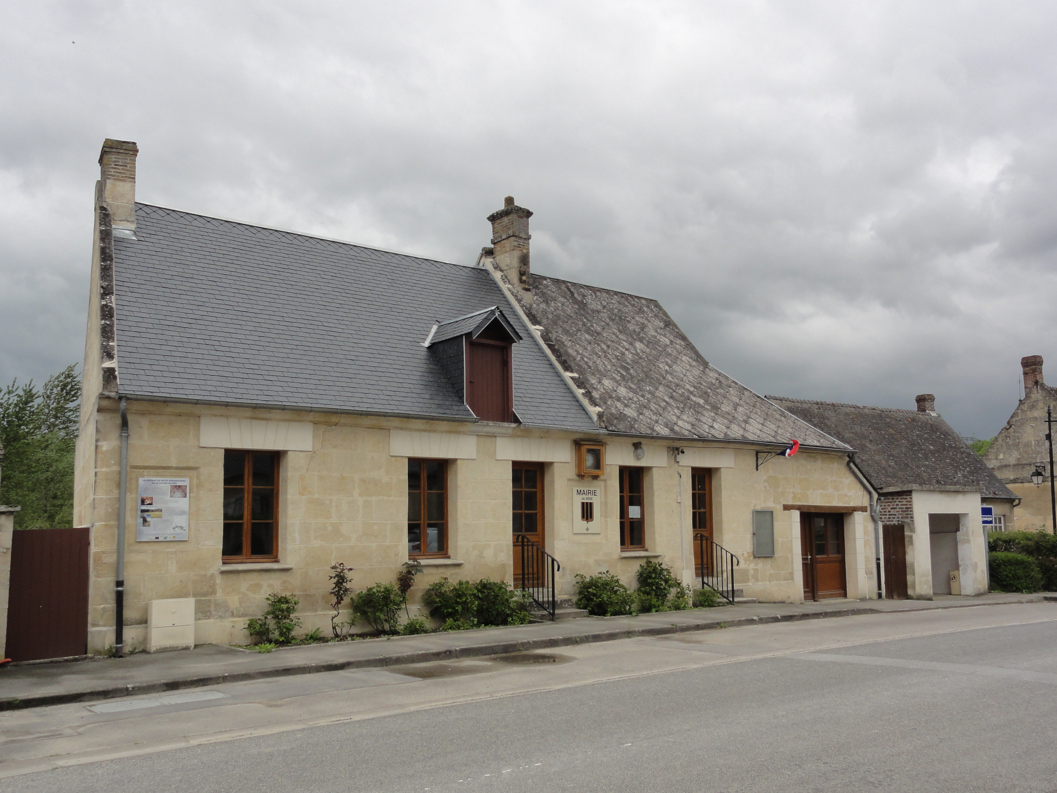 Brie (Aisne) mairie